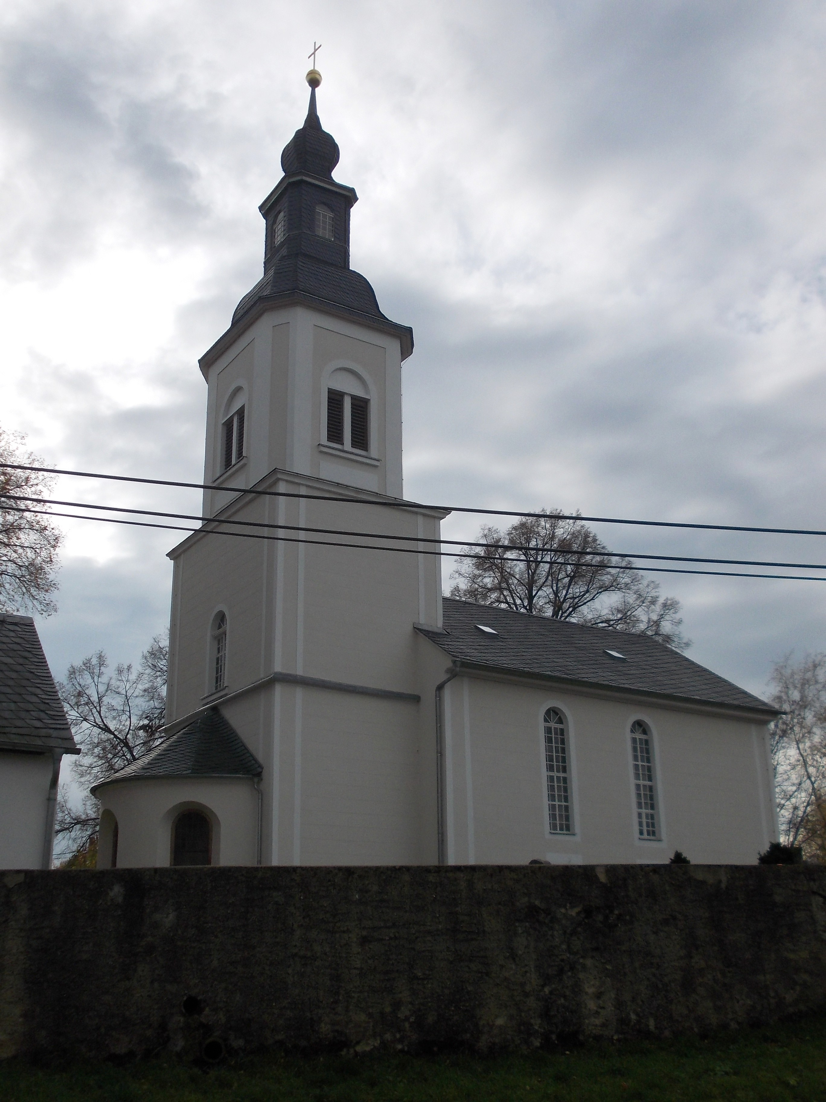 St. George's Church in Nauenhain (Geothain, Leipzig district, Saxony)